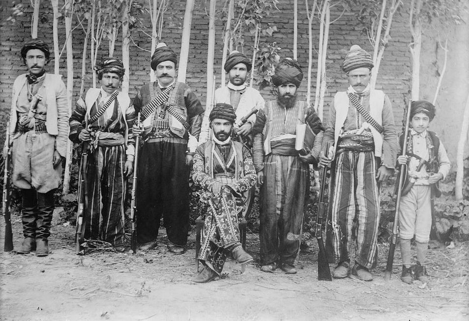 Persia - Nestorian Archbishop, his secy and servants.